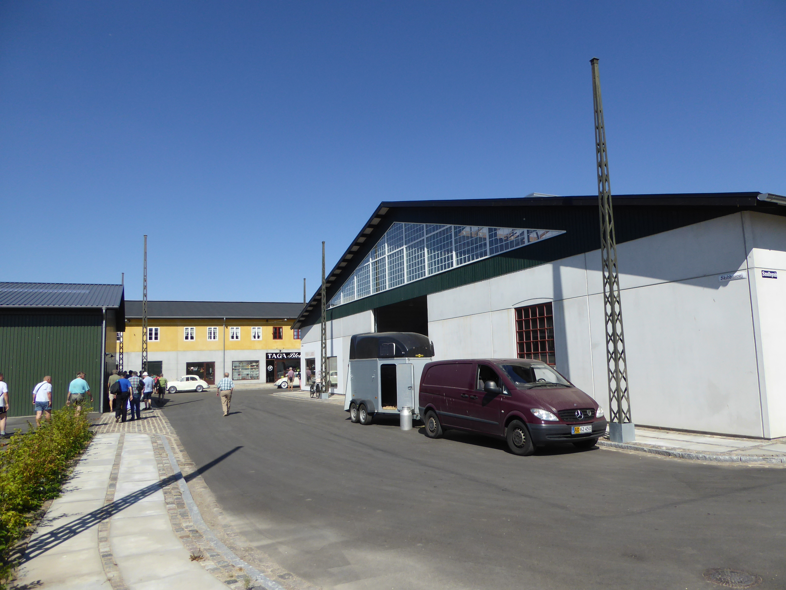 The street Skibhusvej at Sporvejsmuseet Skjoldenæsholm in Denmark. The street is named after the street Skibhusvej in Odense which was once served by trolleybuses. The masts on the picture are for a future trolleybus line on the museum.